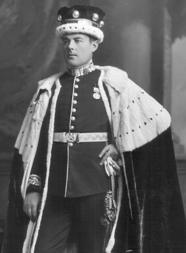 John Campbell Gordon, 1st Marquis of Aberdeen and Temair, when 7th Earl of Aberdeen